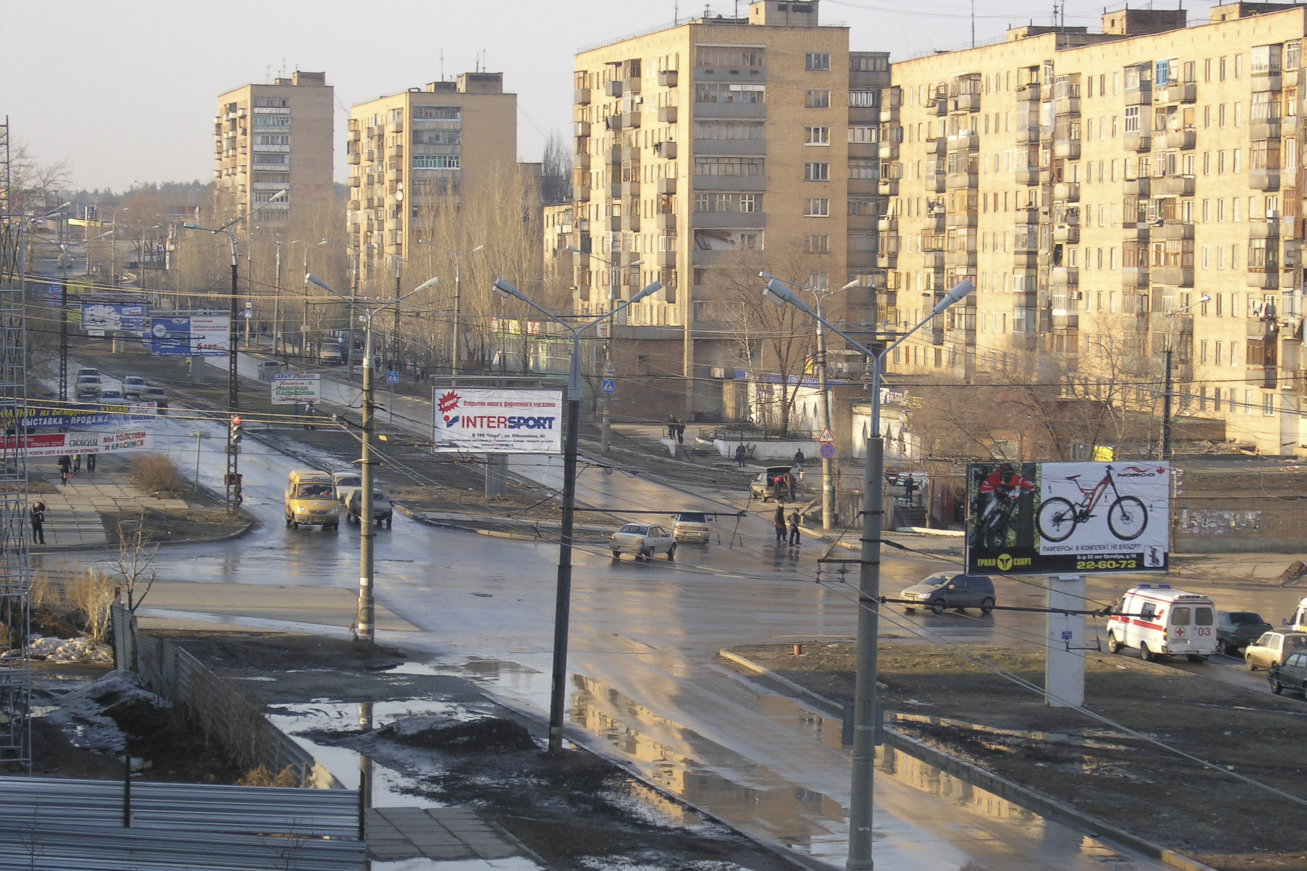 Komsomolsky district, Tolyatti, Russia